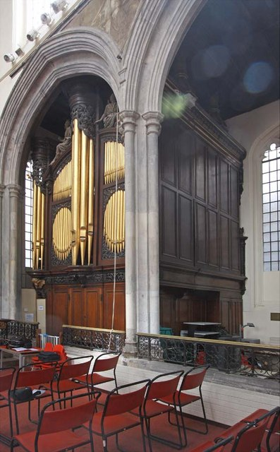 St Andrew Undershaft, St Mary Axe, EC2 - Organ